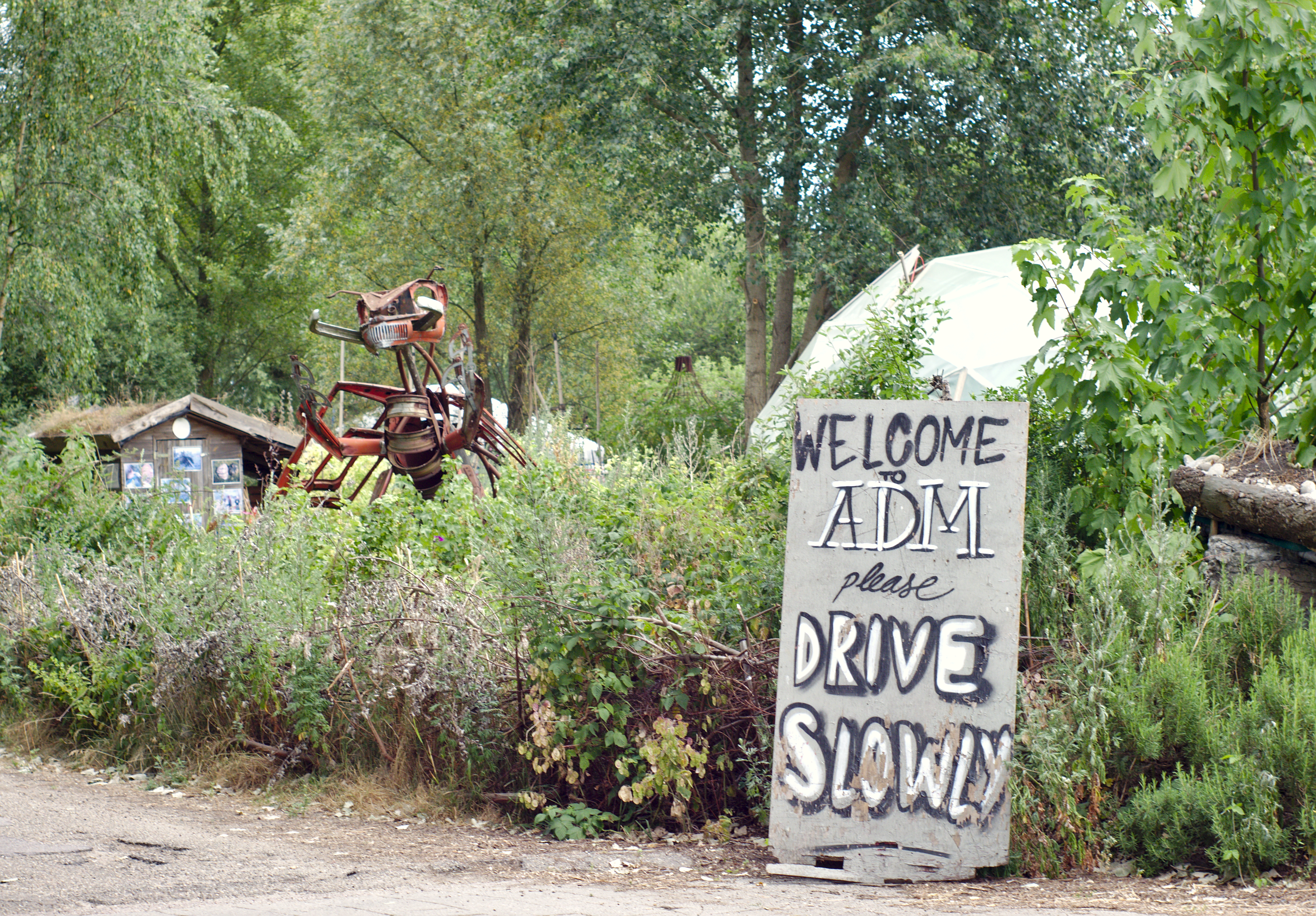 This is a view on the road at the entrance of the ADM (Amsterdamsche Droogdok Maatschappij) terrain in Amsterdam, which has been squatted since 1997. On the left is one of the many artworks created by the squatters.